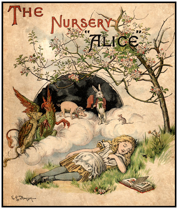 The cover illustration, by E. Gertrude Thomson, of The Nursery "Alice" by Lewis Carroll.